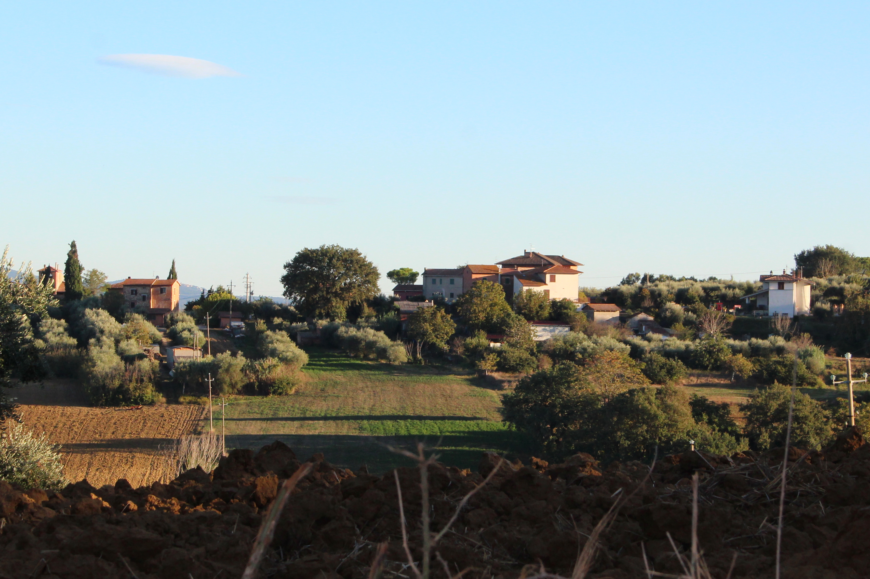 Lopi (also: I Lopi), hamlet of Castiglione del Lago, Province of Perugia, Tuscany, Italy